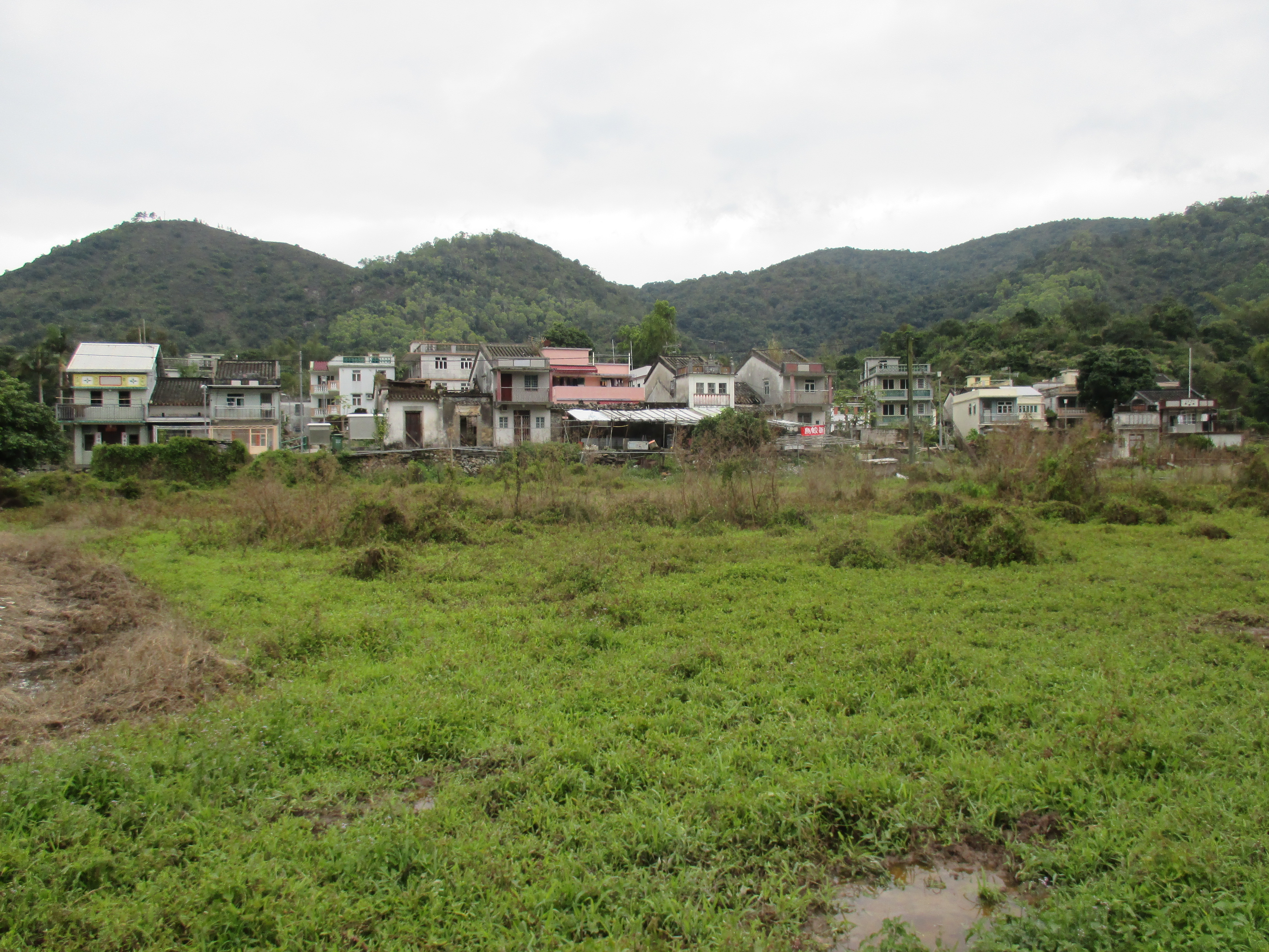 Wu Kau Tang, North District, Hong Kong